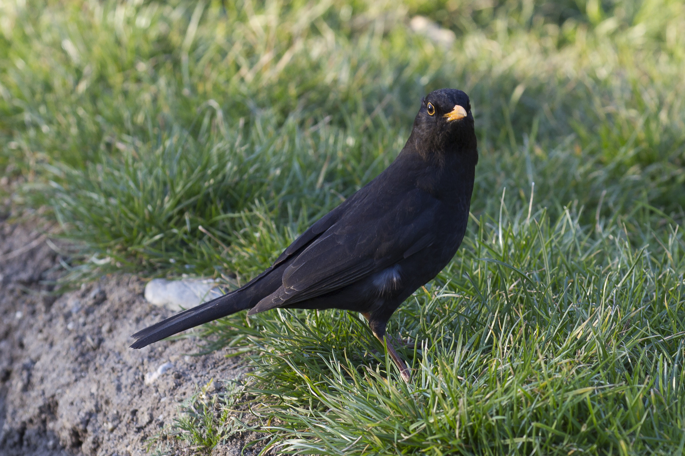 Common blackbird (Turdus merula) in Jardin des plantes in Toulouse